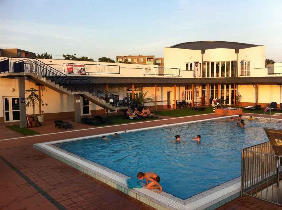 Swimming-pool as outside using